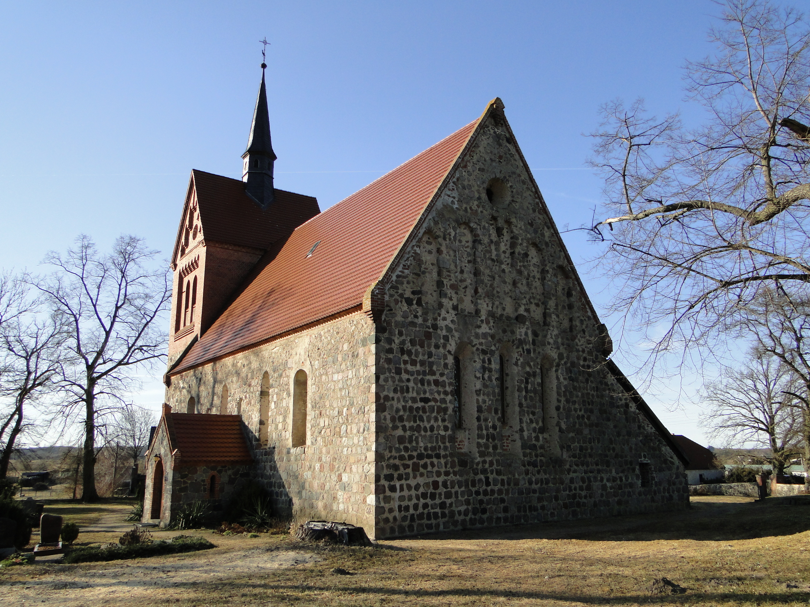 Church in Bredenfelde, district Mecklenburg-Strelitz, Mecklenburg-Vorpommern, Germany